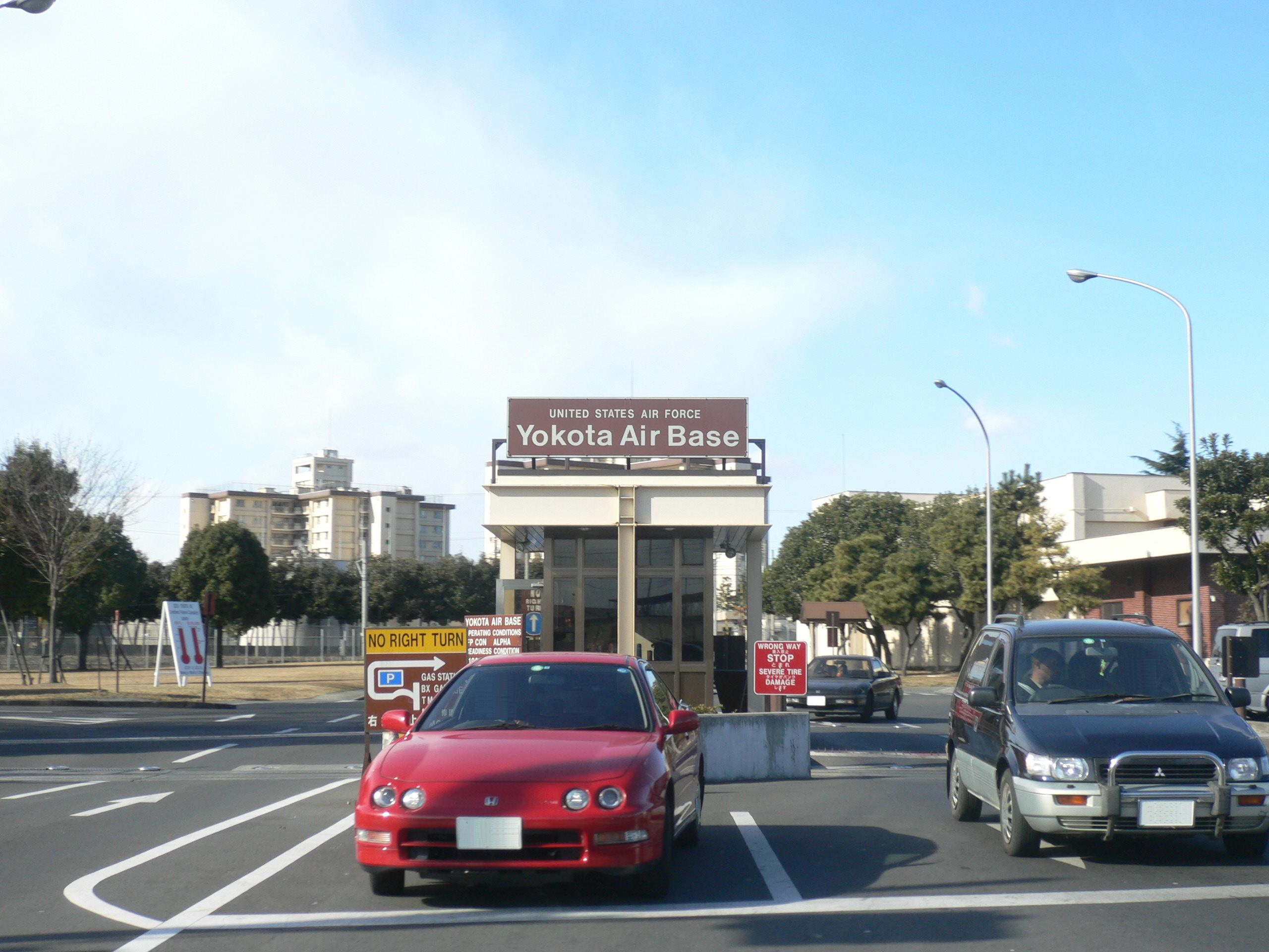 Yokota Air Base (横田飛行場) Gate No.12, Tokyo M.